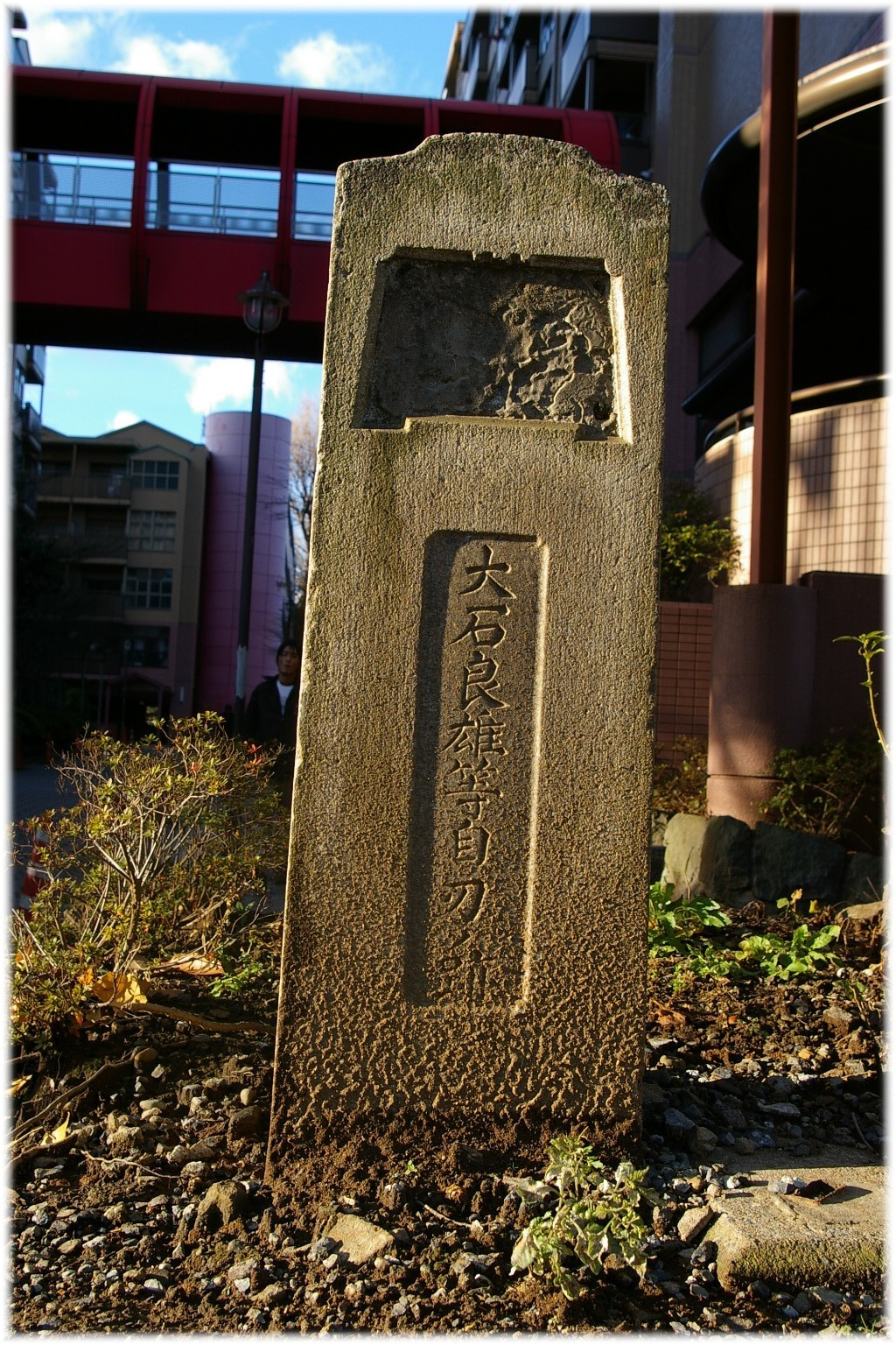 Guidepost to the place where Ōishi Yoshio passed away in Minato-ku, Tokyo